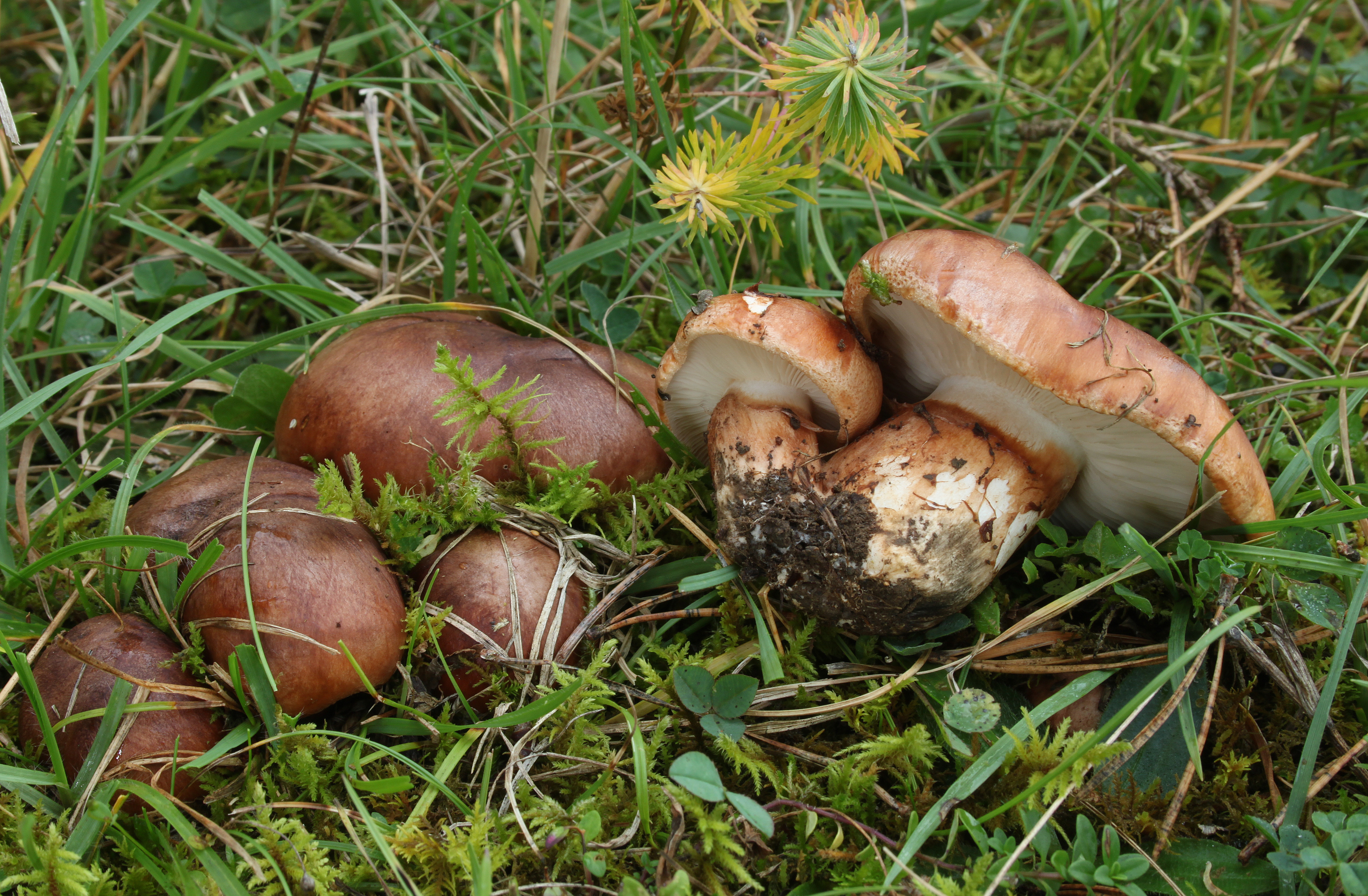 Tricholoma batschii or Tricholoma fracticum, Family: Tricholomataceae, Location: Germany, Ehingen